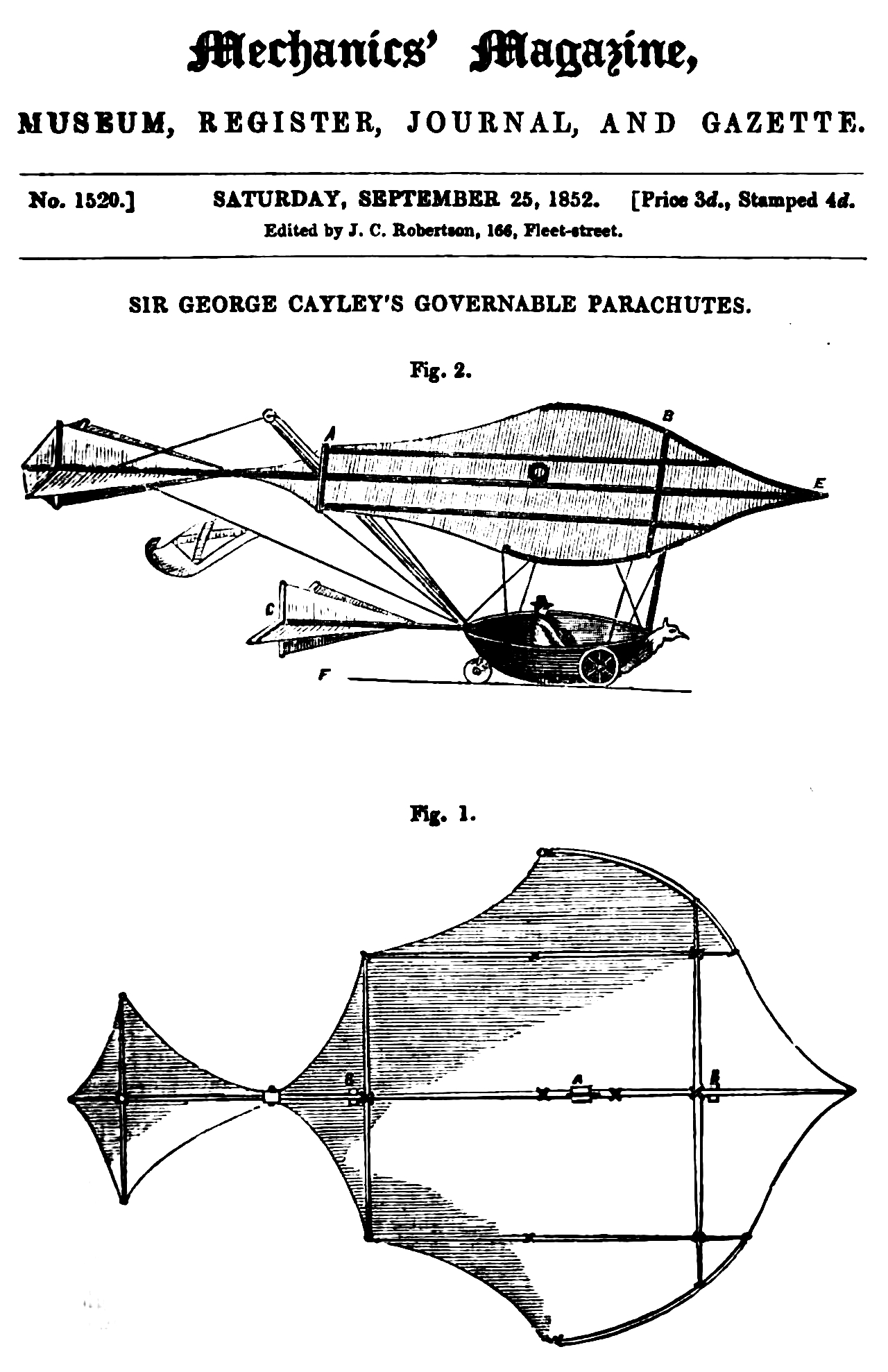 Glider from 1852 by George Cayley, british aviator (1774 - 1857).